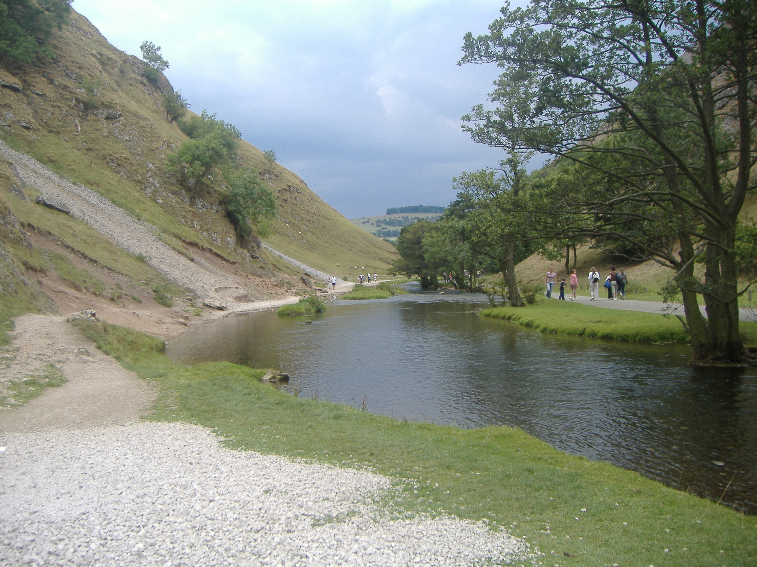 The River Dove as it flows through a valley at Dovedale in the Peak District National Park. From: River Dove, Derbyshire